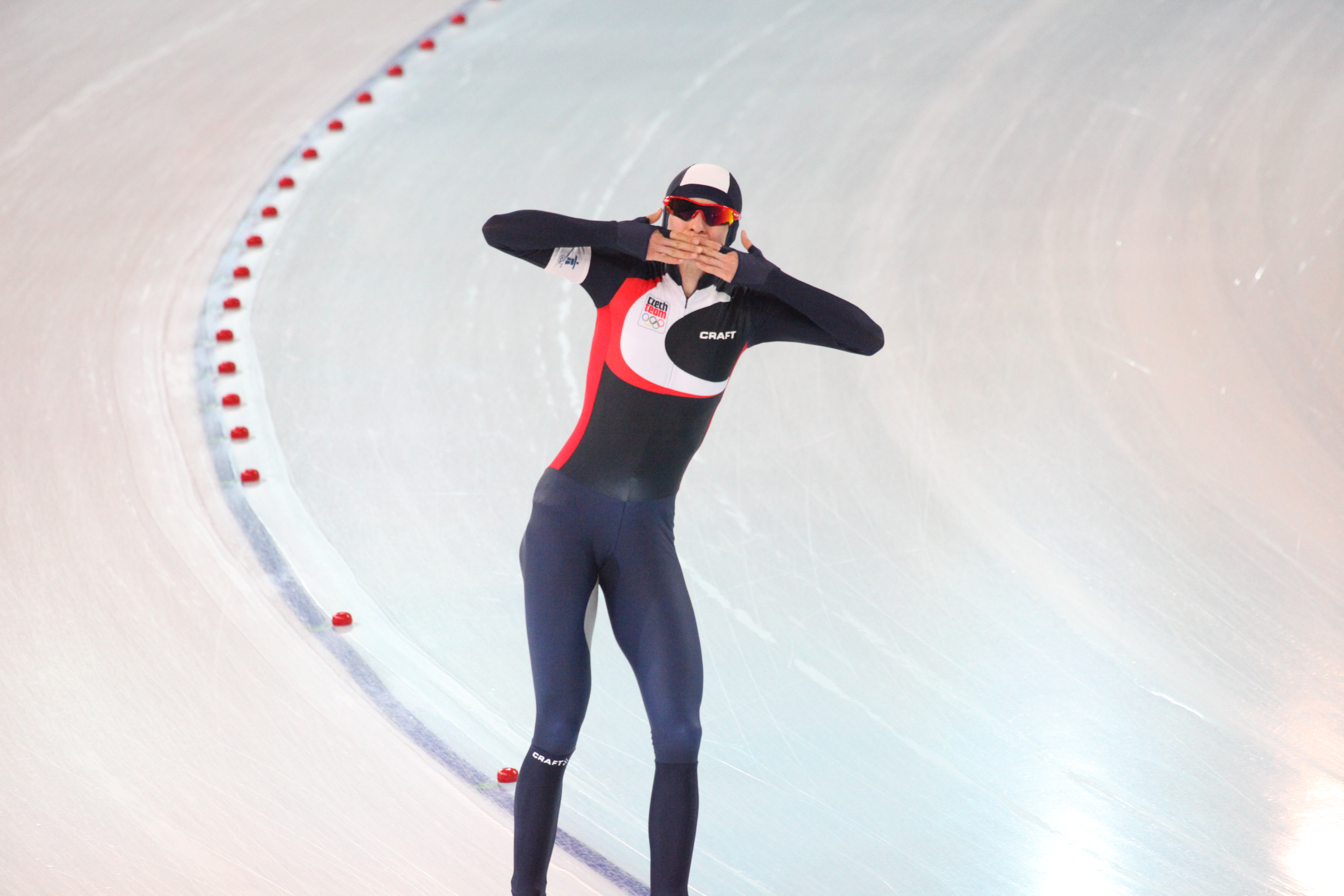 Martina Sáblíková - Women's 5000 meter finals at Vancouver 2010 Olympics